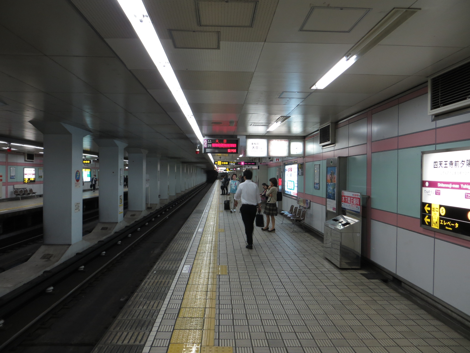 Platform from Shitennoji-mae Yuhigaoka Station.